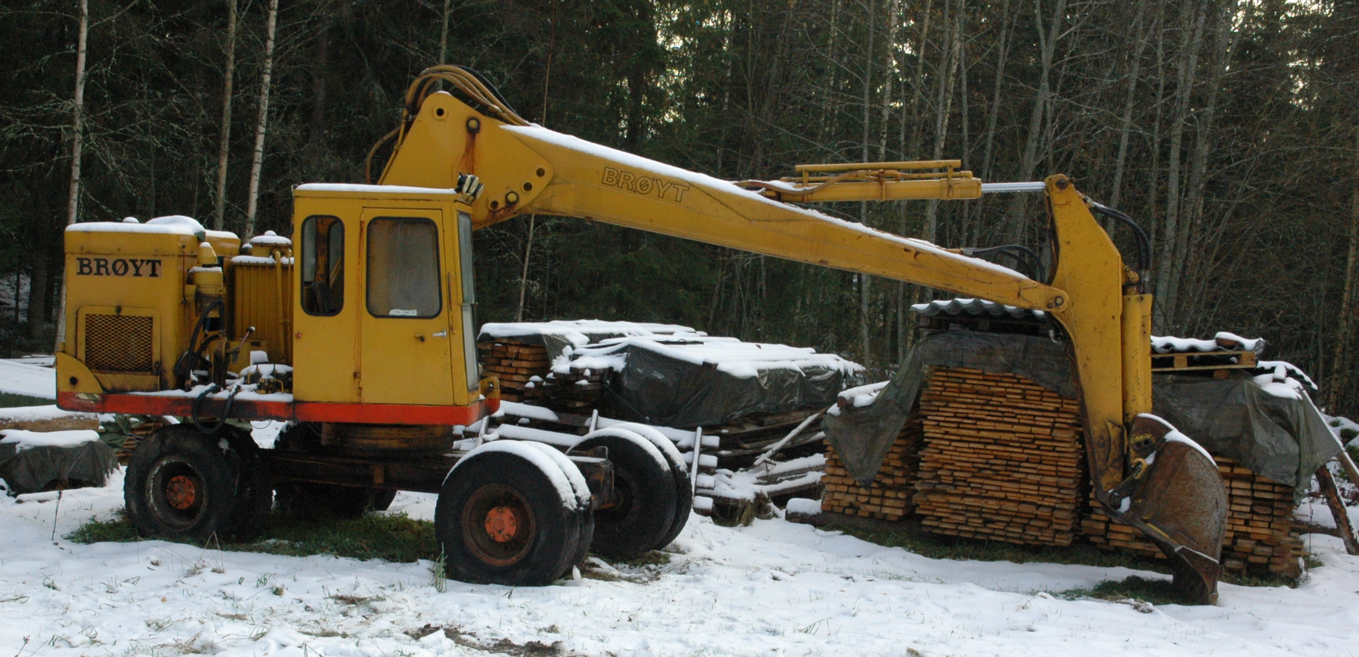 Early model of the norwegian excavator Brøyt. It has no means of propulsion. My own phtography, Kjetil Lenes